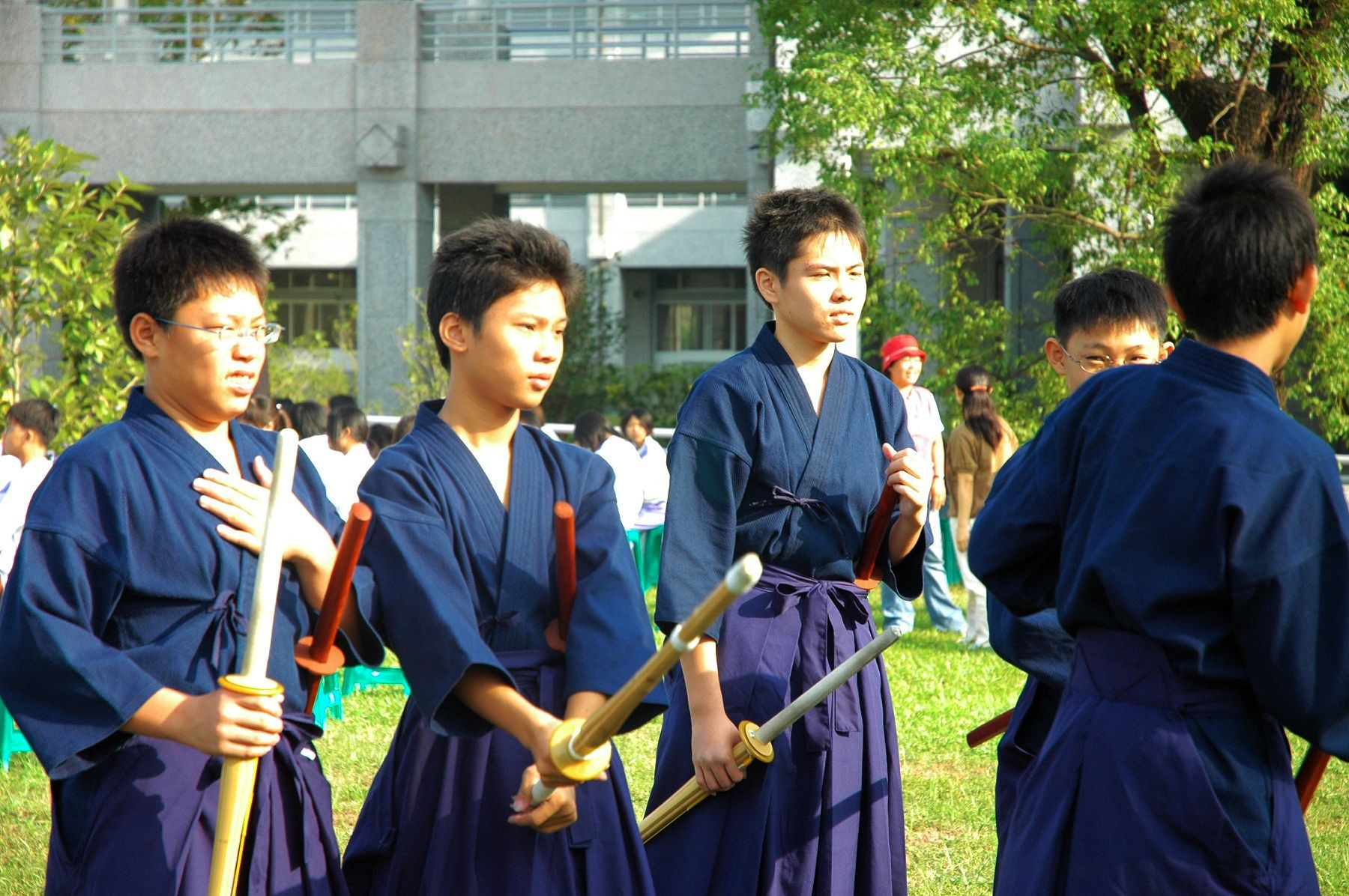 The students of Kendo Club, Da Ji Junior High School, Chiayi County, Taiwan.